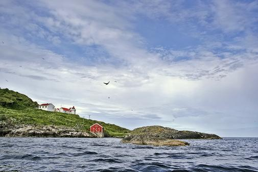 Hekkingen lighthouse southwest of Tromsø, Norway, on the small island of Hekkinga at the entrance to Malangen fjord.